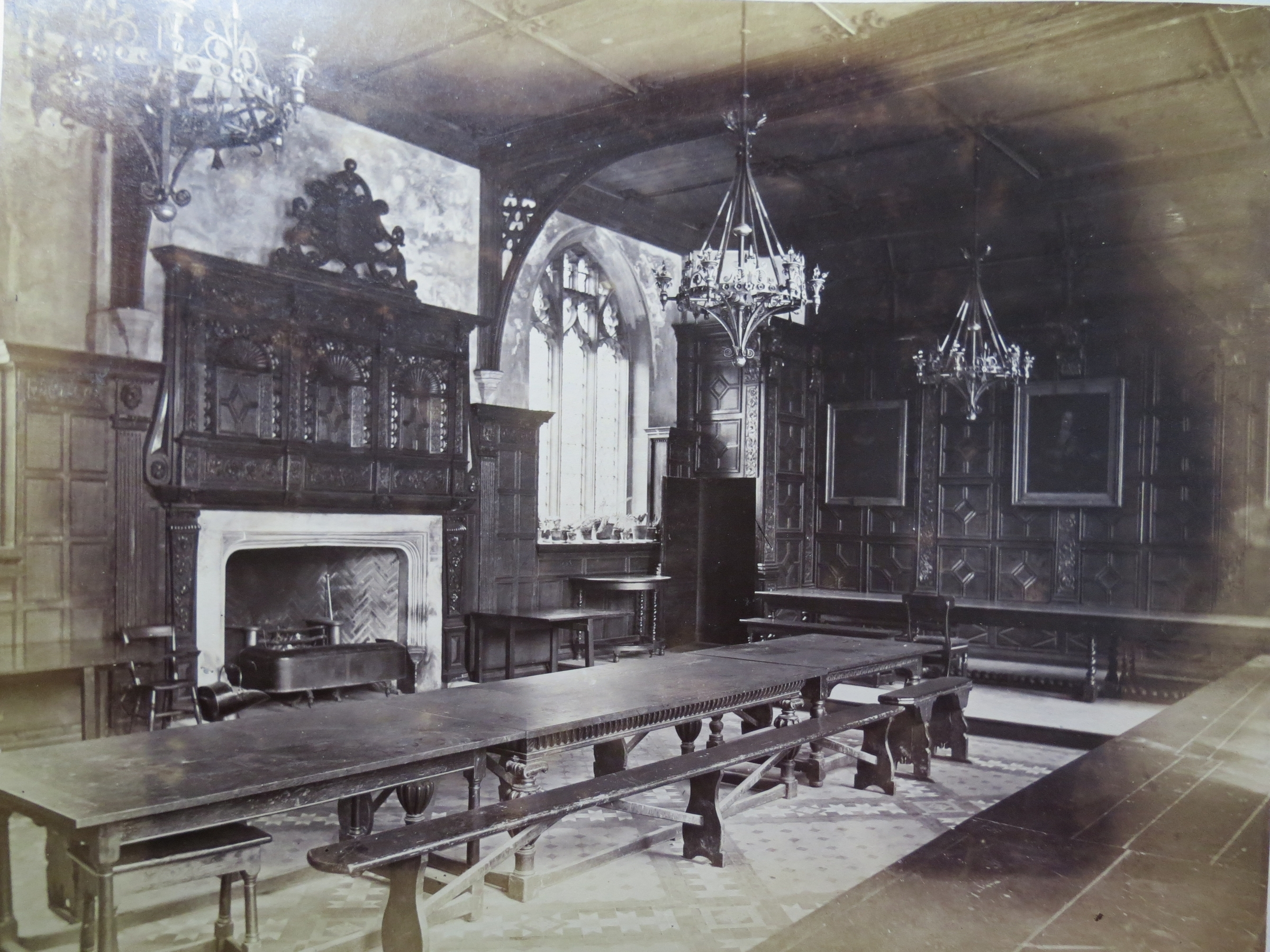 The original medieval dining hall of Pembroke College, Cambridge, which was demolished and then rebuilt by Alfred Waterhouse in 1875-6. Image taken from original albumen print from a bound album of 58 Cambridge University photographs. Original 19th century album in the possession of Kimberly Blaker, New Boston Fine and Rare Books.